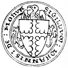 1611 Drawing by Nicholas Charles, Lancaster Herald, of seal of John III de Mohun (1269-1330), feudal baron of Dunster, appended to Barons' Letter 1301 (A Exemplar). Arms: Or, a cross engrailed sable; Latin legend: Sigillum Johannis de Mohun ("seal of John de Mohun")